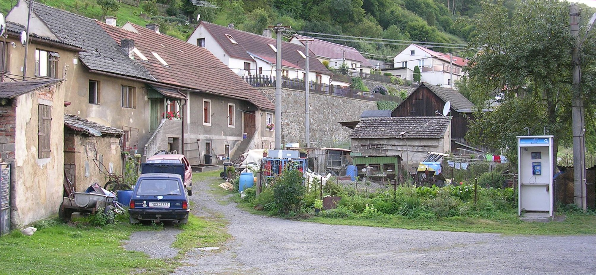 Pustověty, Rakovník District, Central Bohemian Region, the Czech Republic.